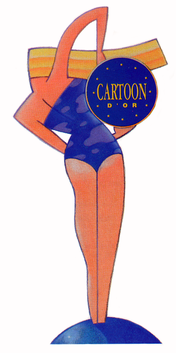 Cartoon d'or's picture